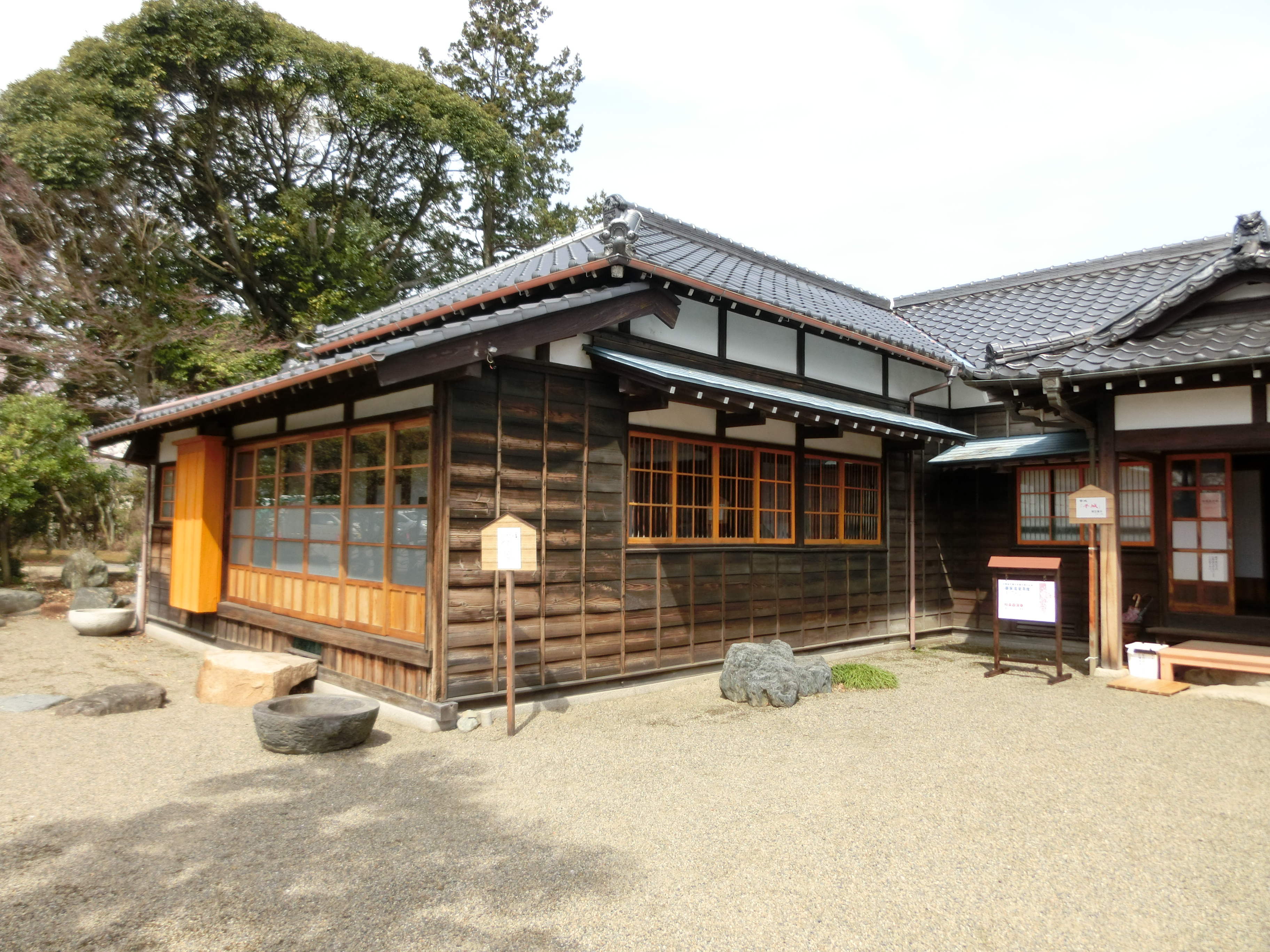 Iwaki-Taira Han Temporary Office